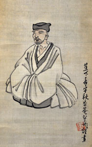 Matsuo Bashō 建部巣兆 Takebe Soochoo (1761-1814) He was one of the leading haiku poets of Edo during his time, together with Suzuki Michihiko 鈴木道彦 and Natsume Seibi 夏目成美. He was a famous resident of the Senju 千住 district. Portrait of Matsuo Basho 建部巣兆筆の「芭蕉像」